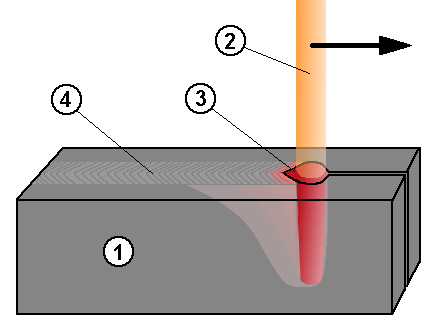 Schematic illustration of Keyhole welding (such as electron beam welding, laser welding and plasma welding) 1. object 2. energy ray 3. keyhole 4. weld